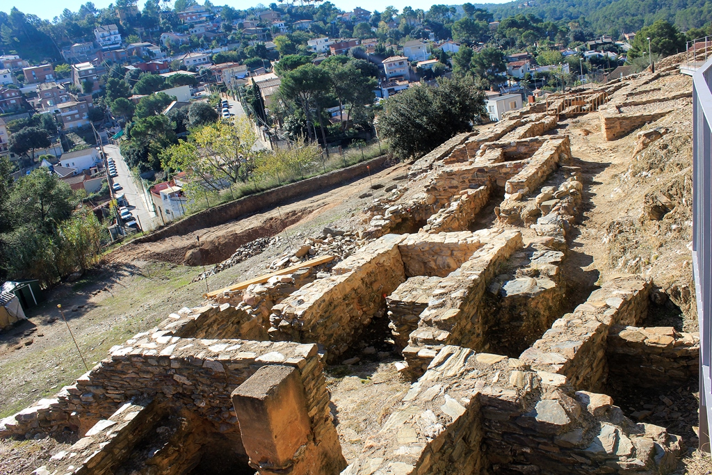 poblat iberic ca'n Oliver